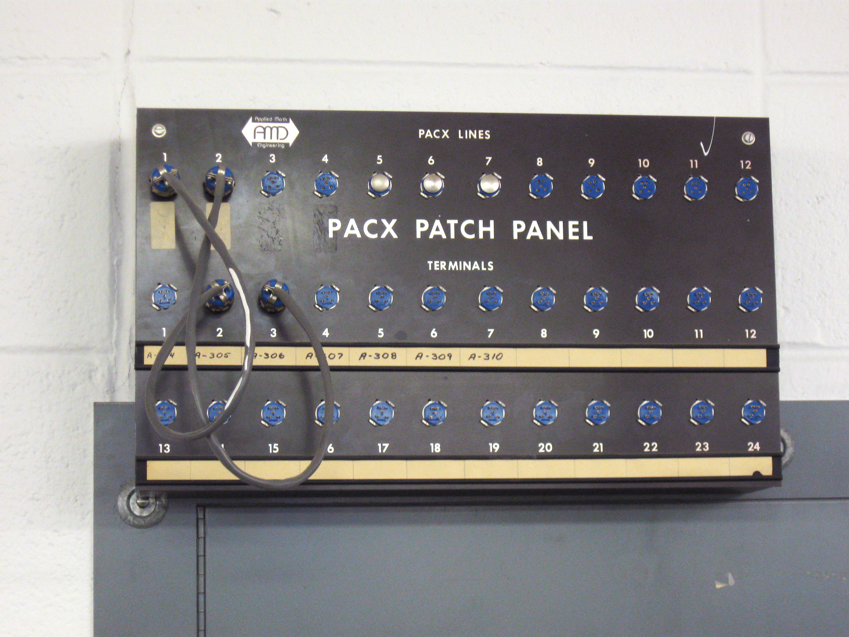 PACX Patch panel installation